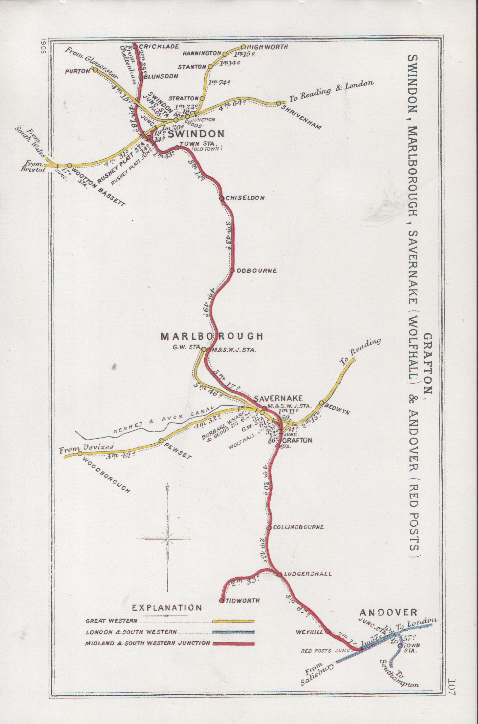 Pre Grouping railway junction around Grafton, Swindon, Marlborough, Savernake (Wolfhall) & Andover (Red Posts)